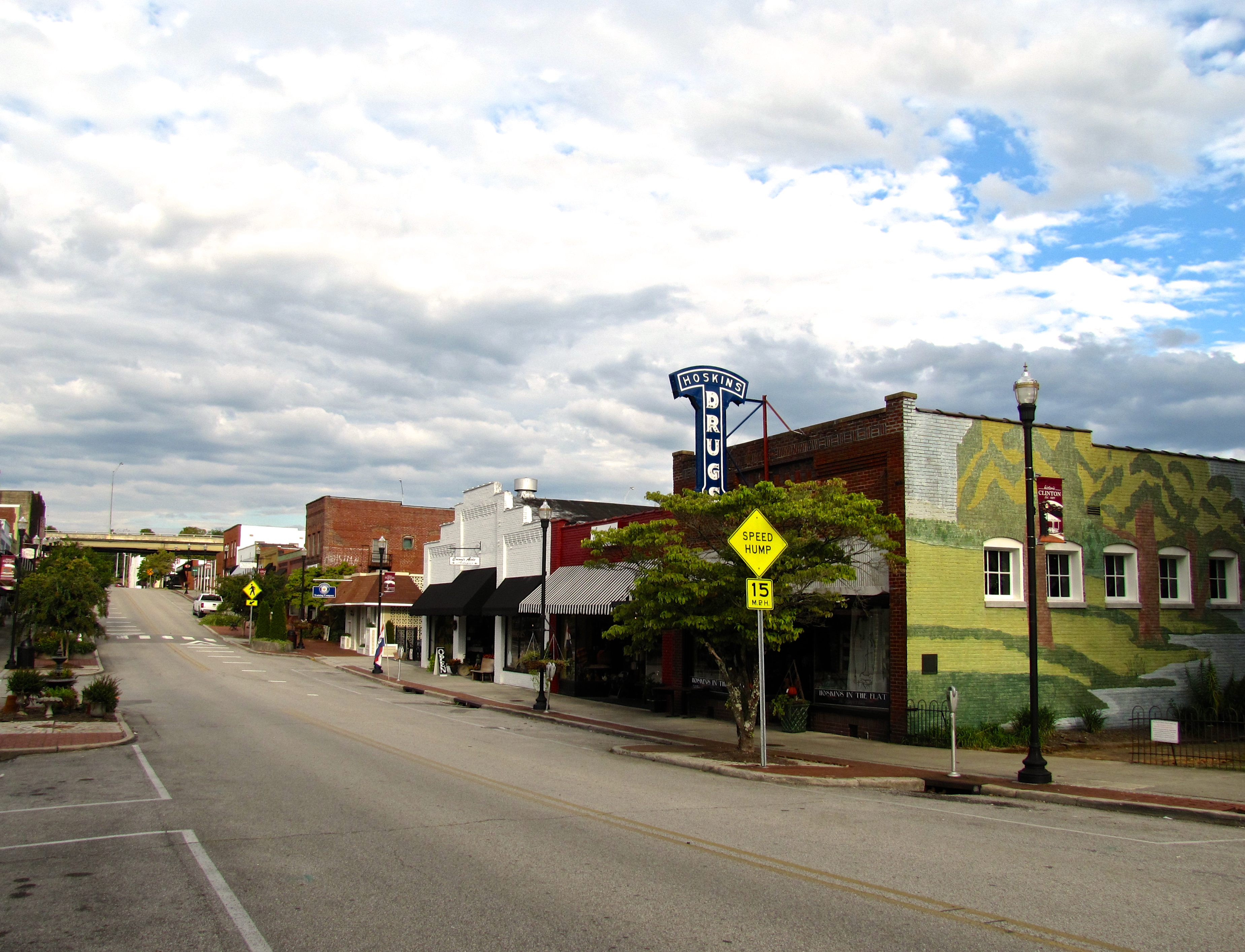 Buildings along Market Street in Clinton, Tennessee, United States.